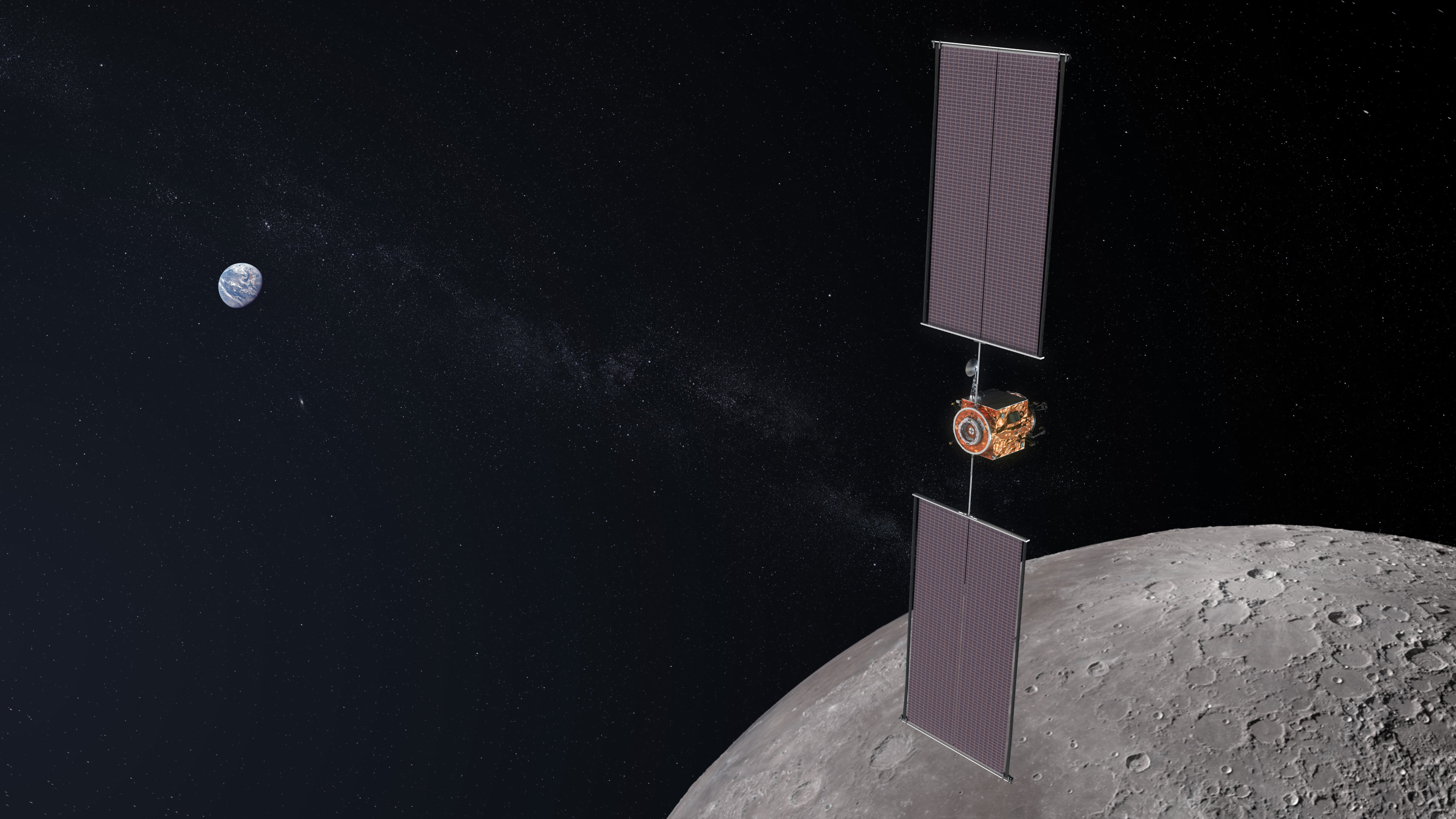 Lunar Orbital Platform-Gateway Power and Propulsion Element: First Module in Lunar Orbit for Gateway 2022 launch on partner-provided commercial rocket 50 kW class spacecraft with 40 kW class EP system Power transfer to other gateway elements Passive docking using IDSS compliant interface Capability to move gateway to multiple lunar orbits Orbit control for gateway stack Communications with Earth, visiting vehicles, and initial communications support for lunar surface systems 2t class xenon EP propellant capacity, refuelable for both chemical and xenon propellants Accommodations for utilization payloads 15 year life NASA issued a synopsis for a Spaceflight Demonstration of a Power and Propulsion Element in Feb. 2018. Draft BAA issued July 2018. Final BAA expected Sept. 6, 2018